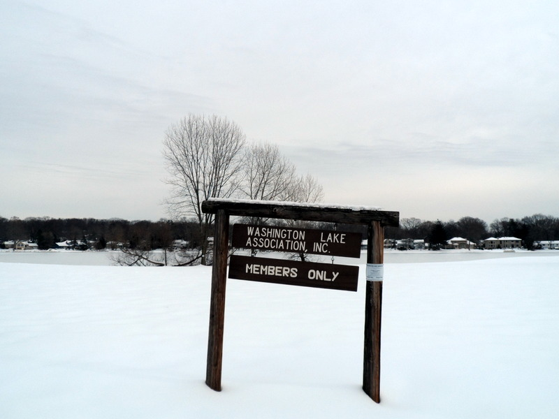 Washington lake